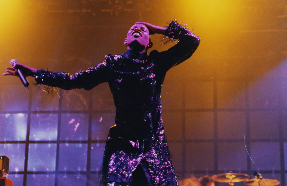 Skin, formerly of Skunk Anansie, performing in Glastonbury.